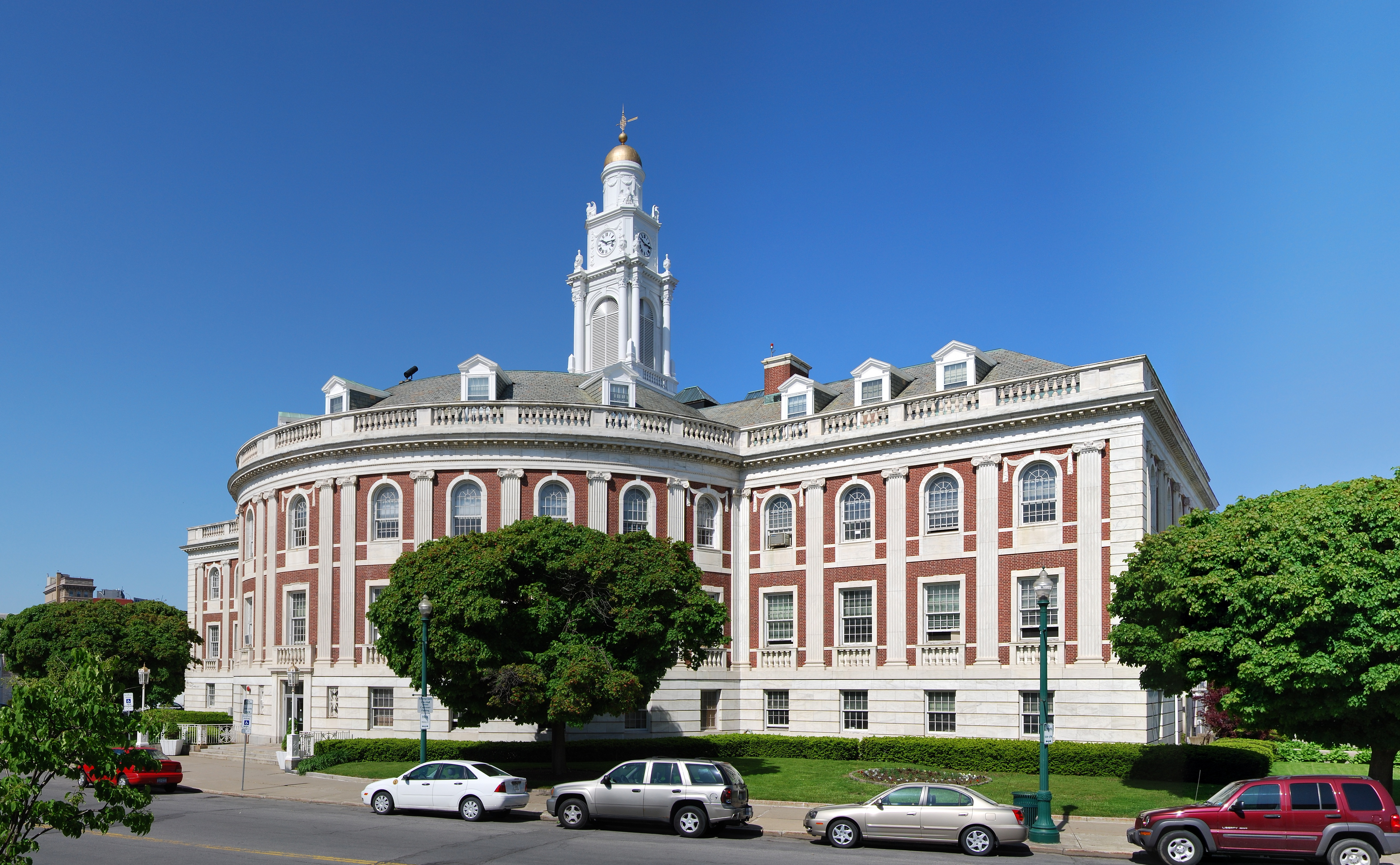 Rear of City Hall of Schenectady, New York, United States